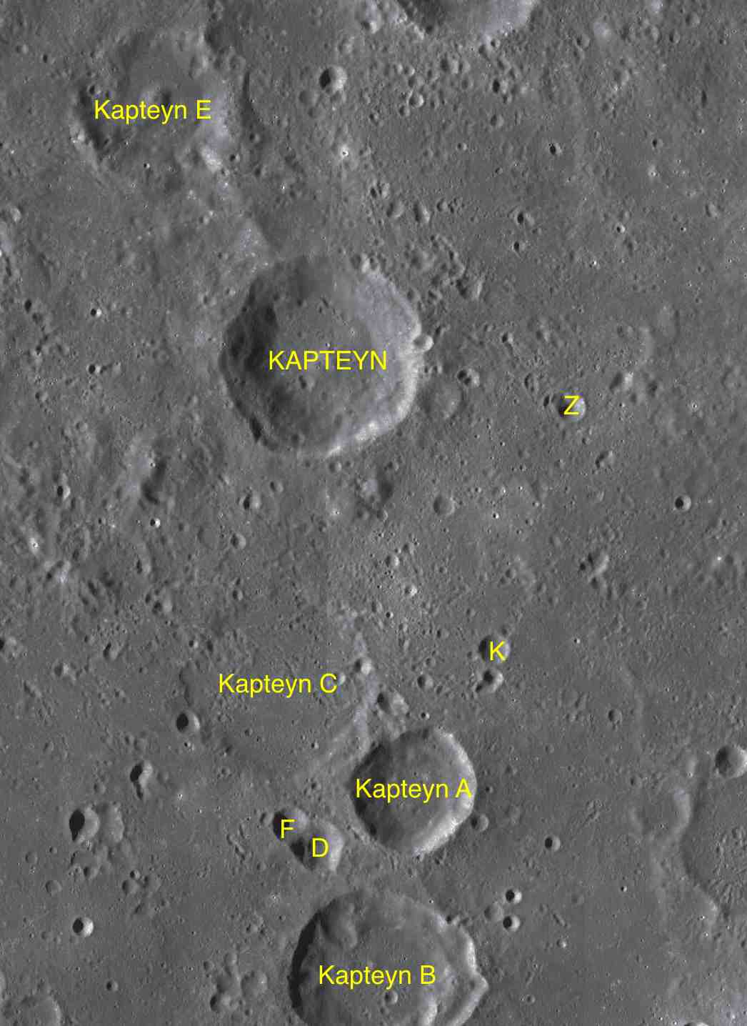 Parts of the charts LAC-80, LAC-81 used for the presentation